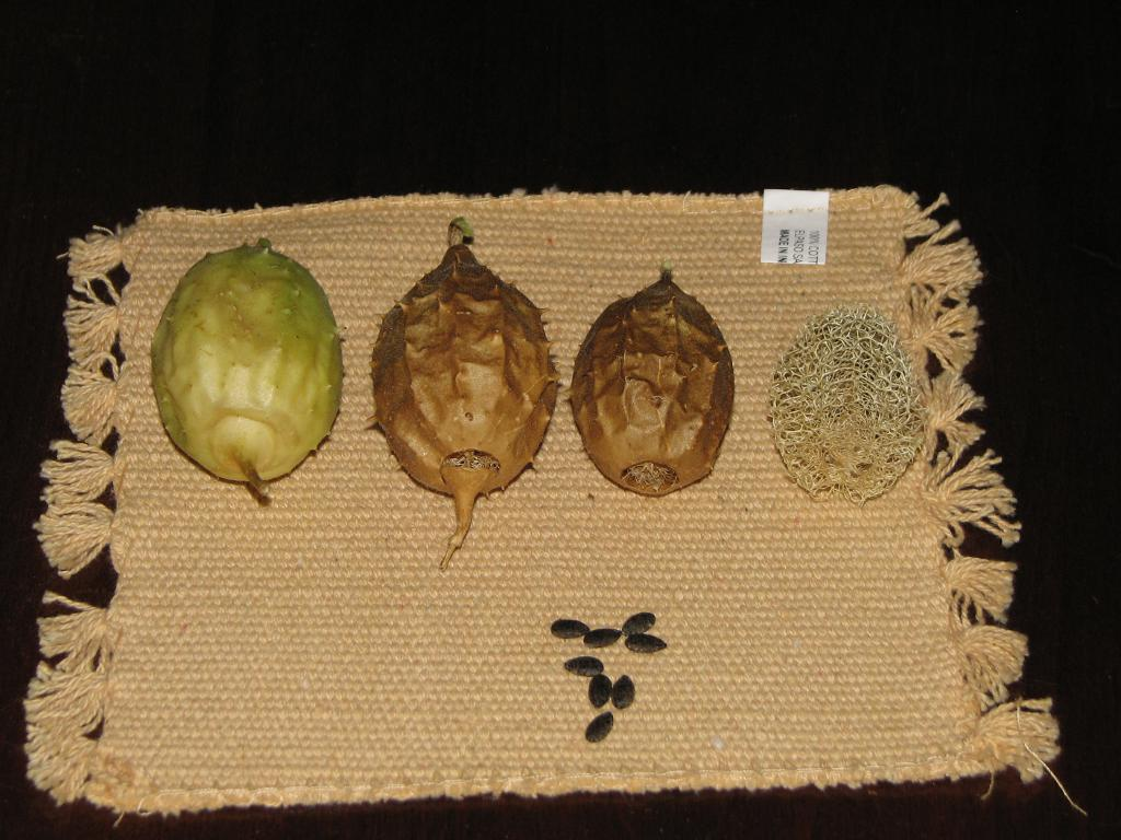 Photograph showing the fruit of Luffa operculata, in various stages of ripeness.